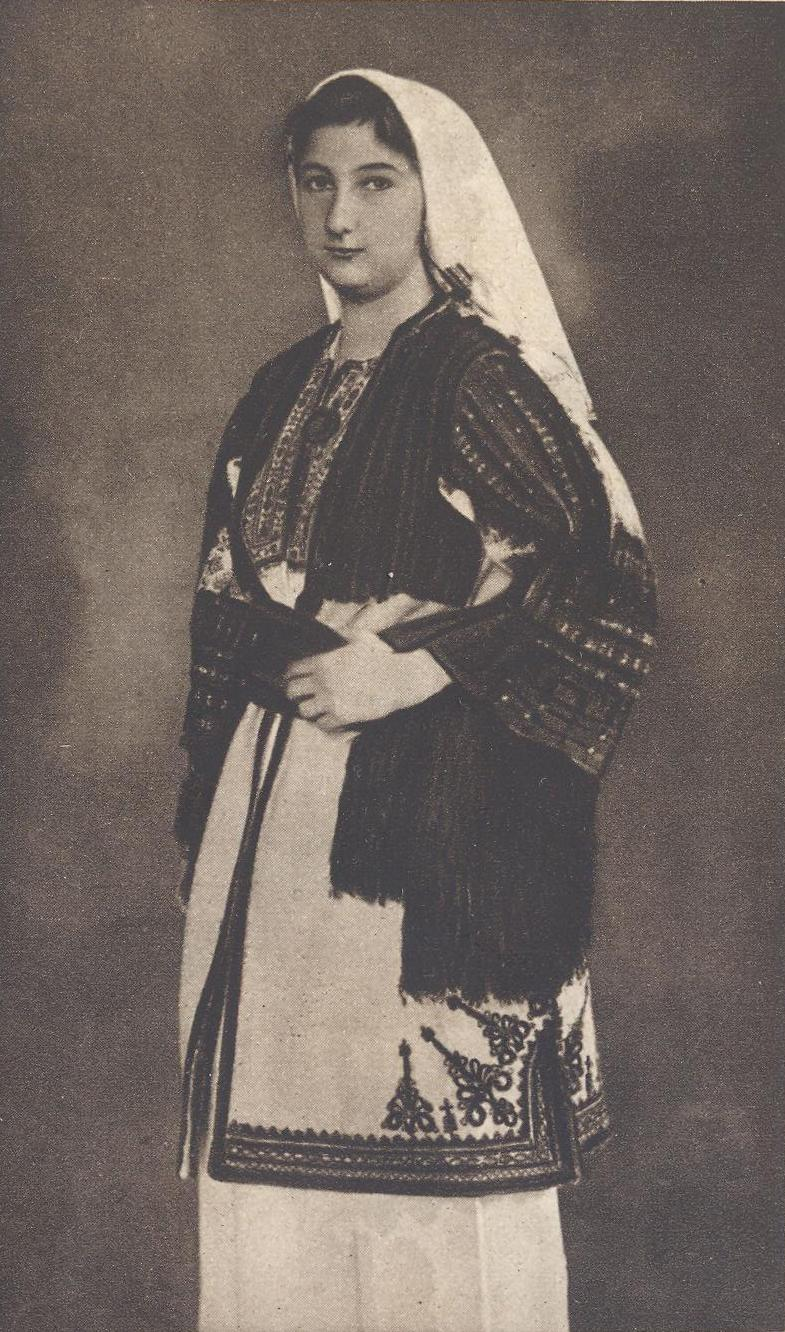 Princess Eudoxia of Bulgaria in Bulgarian national dress from the region of Lazaropole, Kruševo, Smilevo. "Album de la Grande Guerre" №10, Rudolf Mosse, 1915